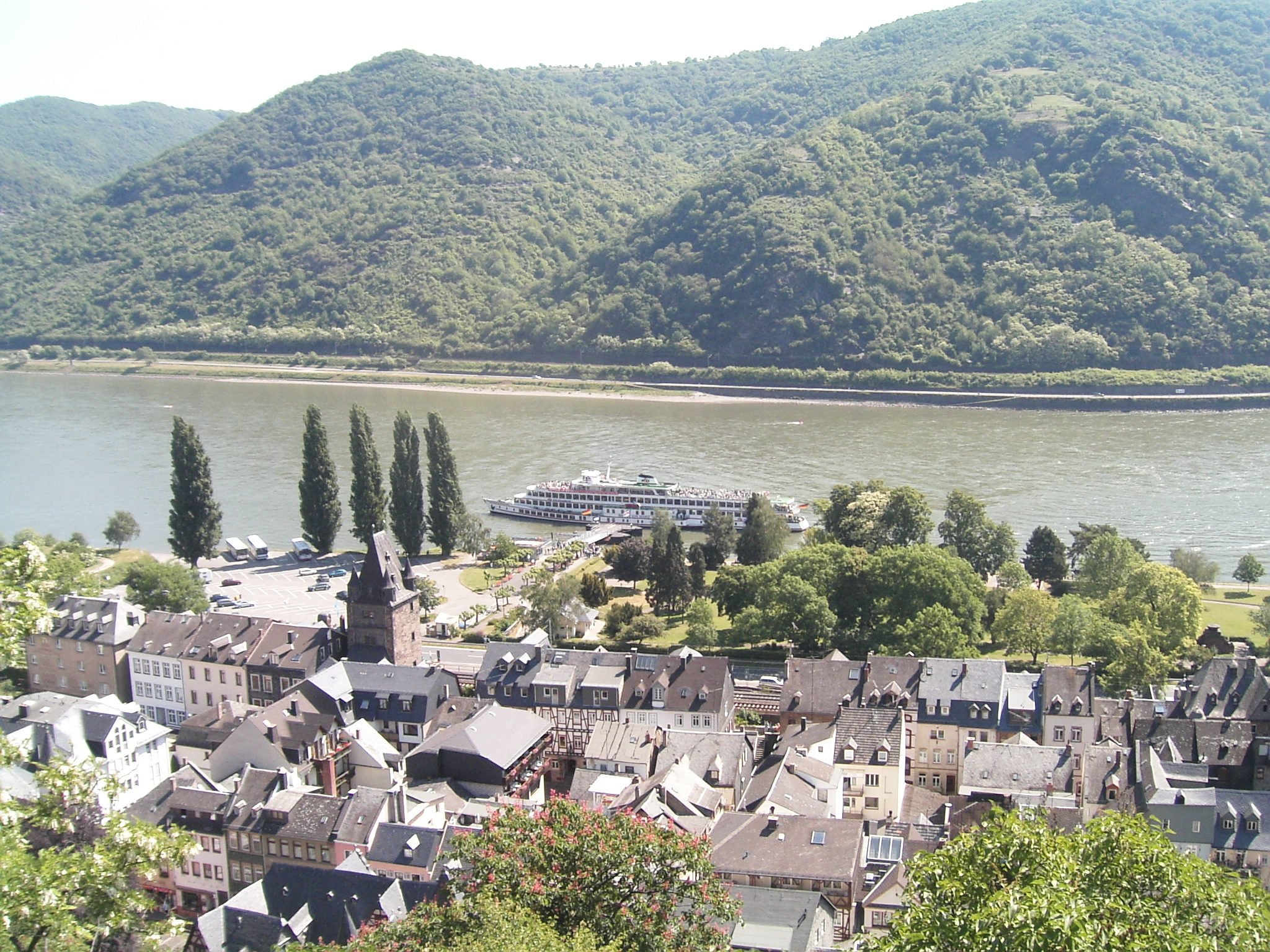 Bacharach, taken from Castle Stahleck, depicting a portion of the town, the Rhine and a passenger boat Image created by Philip Hibbs on May 29th, 2004 and released into the public domain